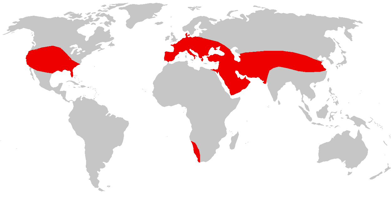 Amphicyon range based on fossil finds.